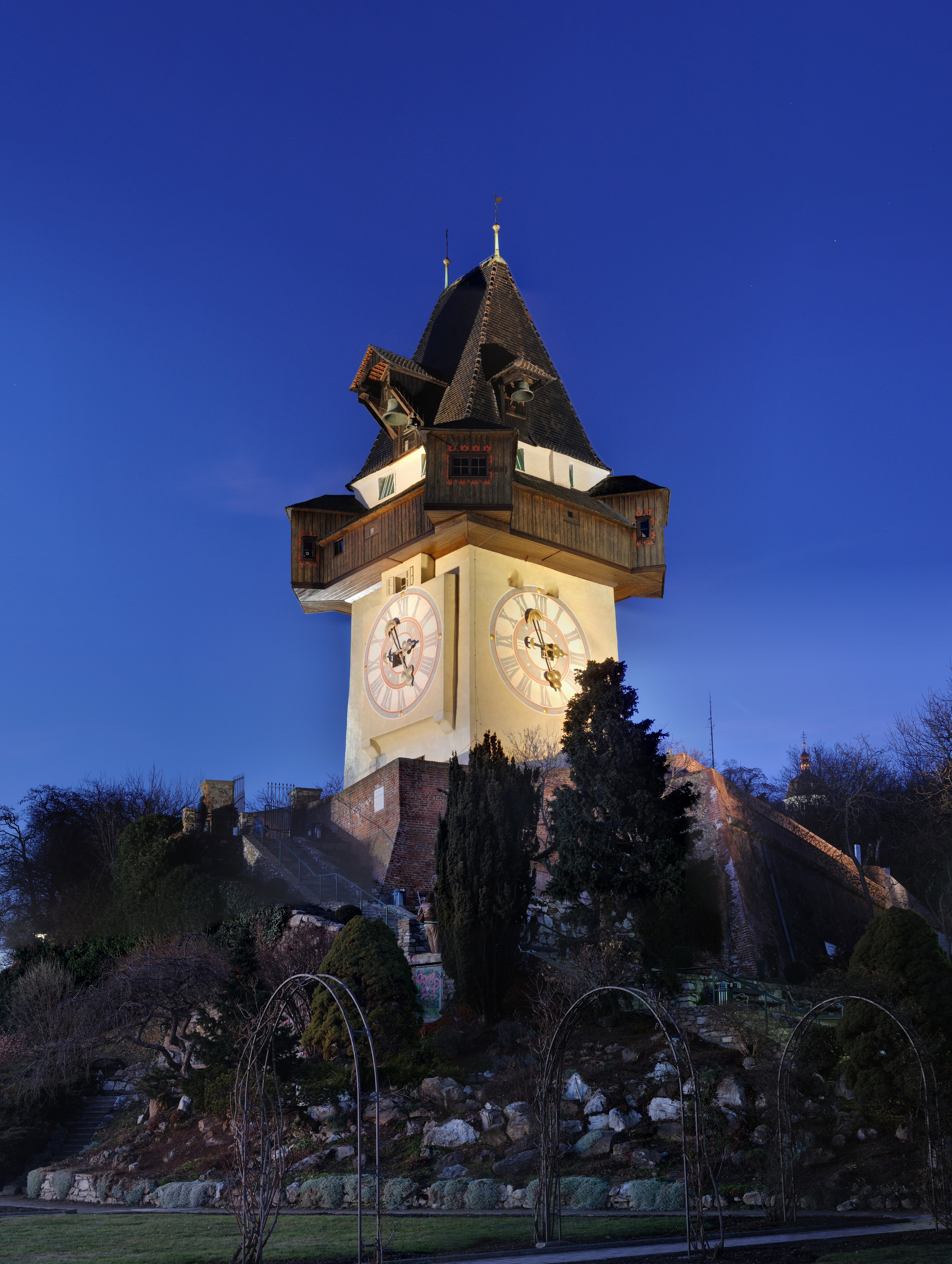 Clock Tower in Graz, Styria, Austria